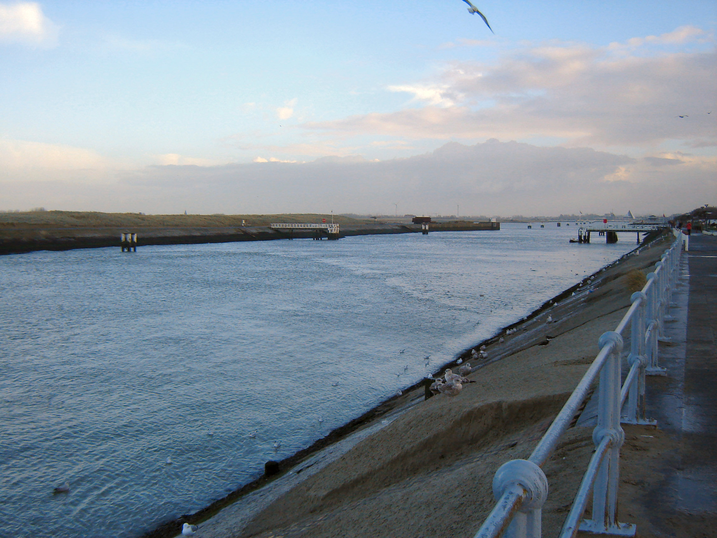 Mouth of the Yser river in, Nieuwpoort, West Flanders, Belgium